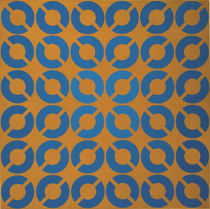 Mervyn Williams Daedal Series #6 (Epicentere) 1979 1220x1220mm Acrylic on Canvas